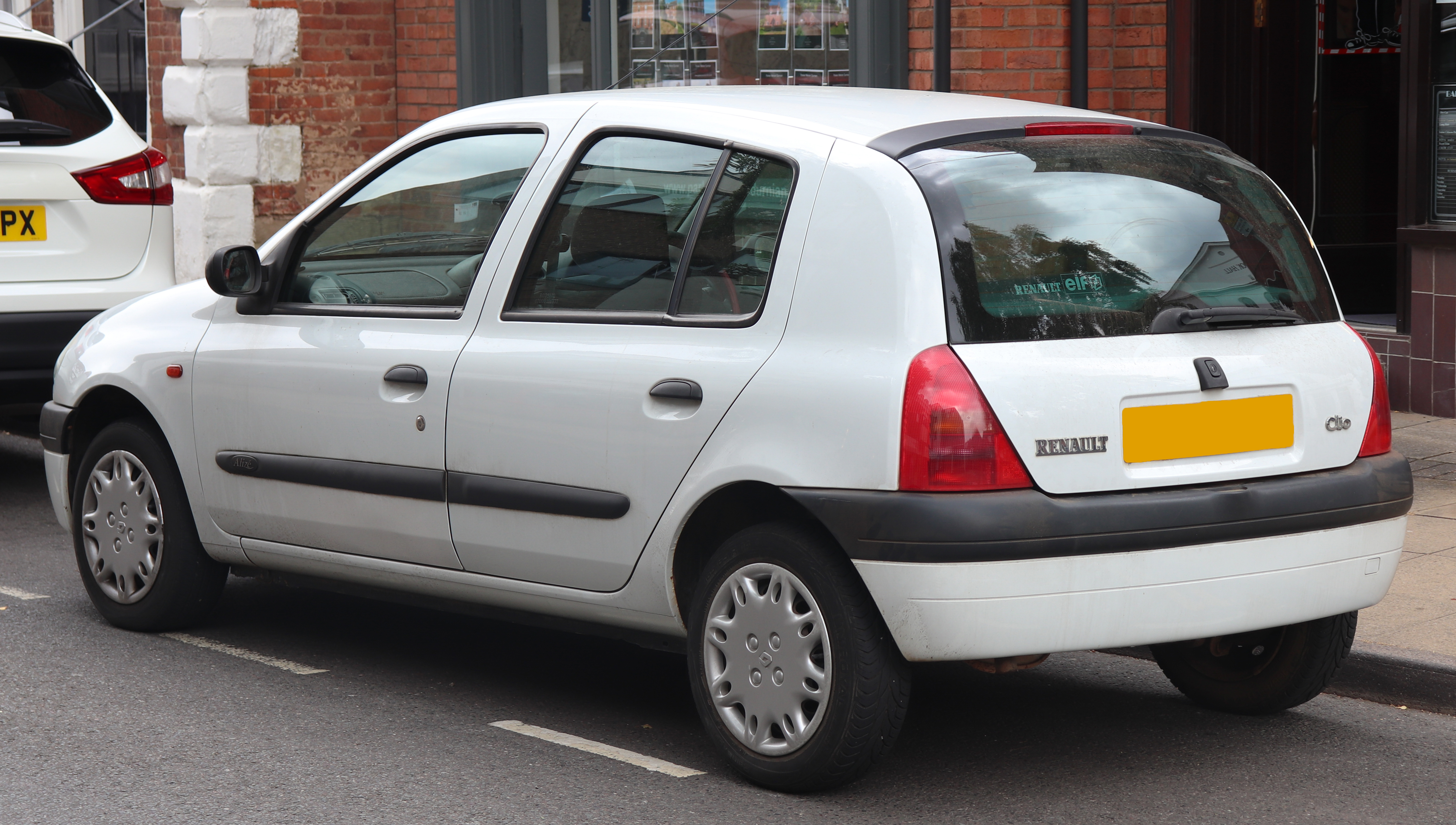 2001 Renault Clio Alize 1.4 Rear Taken in Warwick